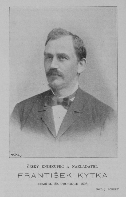 Portrait of František Kytka (1845-1898), Czech bookseller, publisher and politician. Also signed by printmaker Jan Vilím (1856-1923).